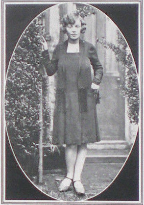 The Irene Savidge and Sir Money Scandal no one attributed in The Graphic 16 June 1928